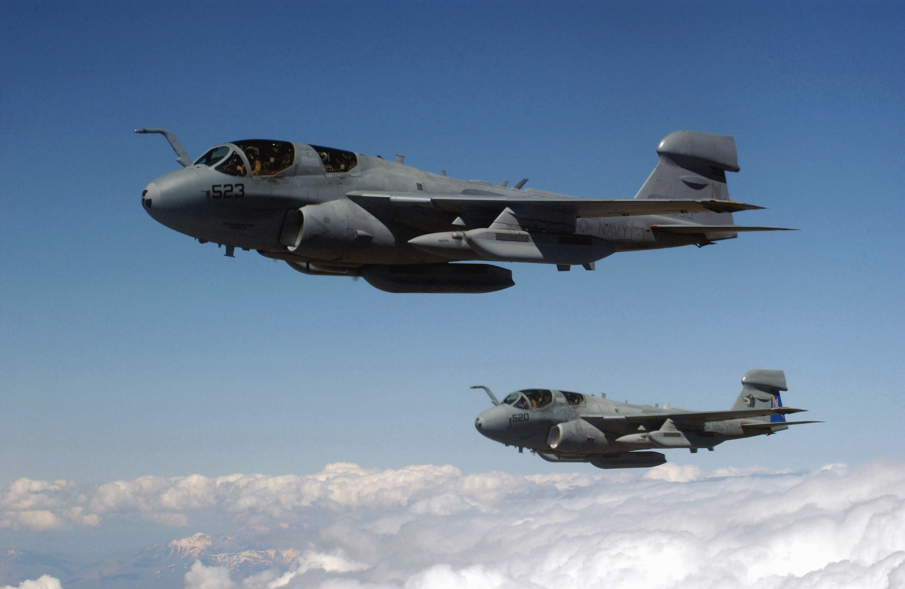 Two US Navy (USN) EA-6B Prowler aircraft fly a refueling mission over Incirlik Air Base (AB) Turkey, in support of Operation NORTHERN WATCH.